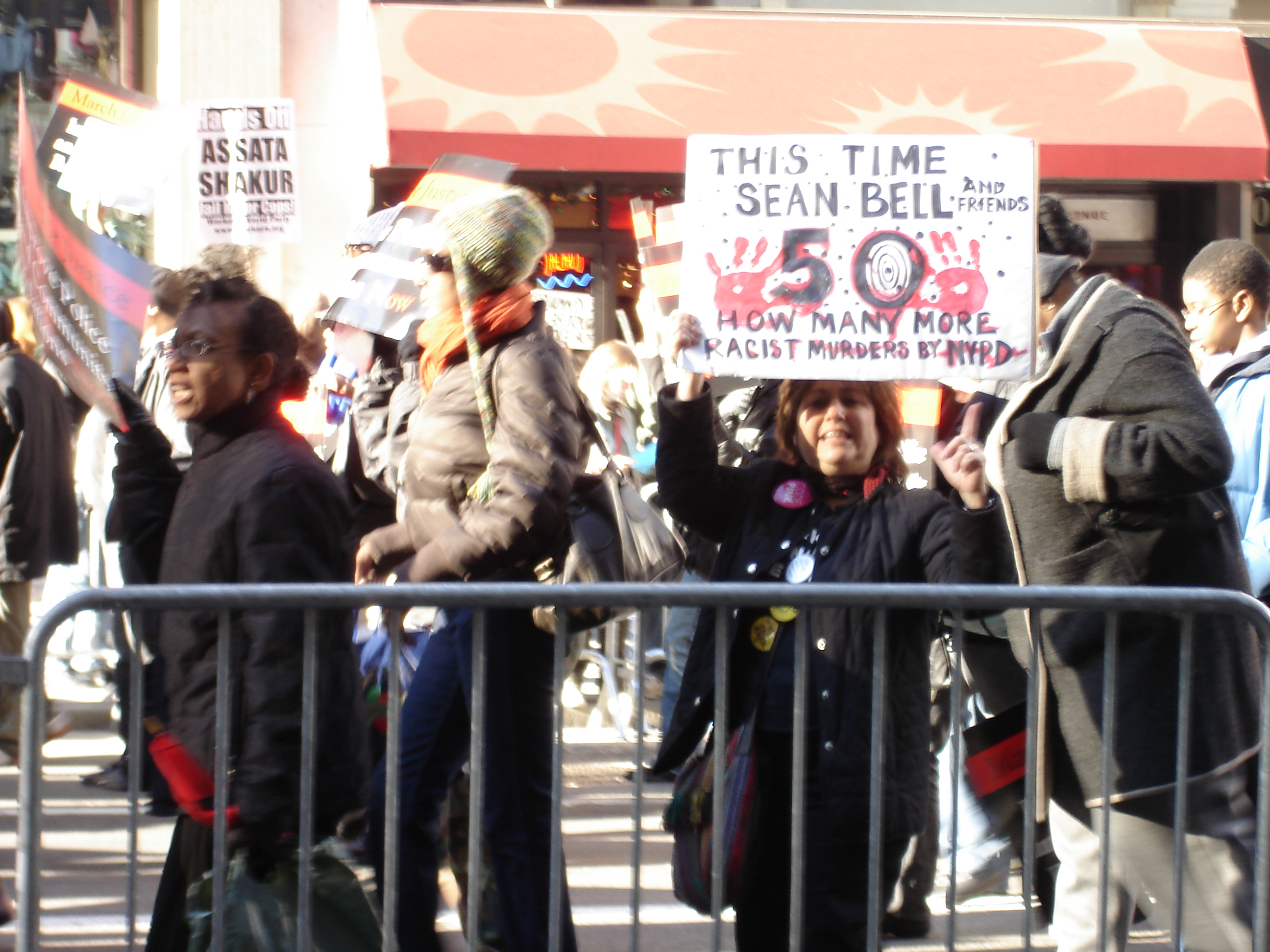 Woman protesting the Sean Bell shooting incident